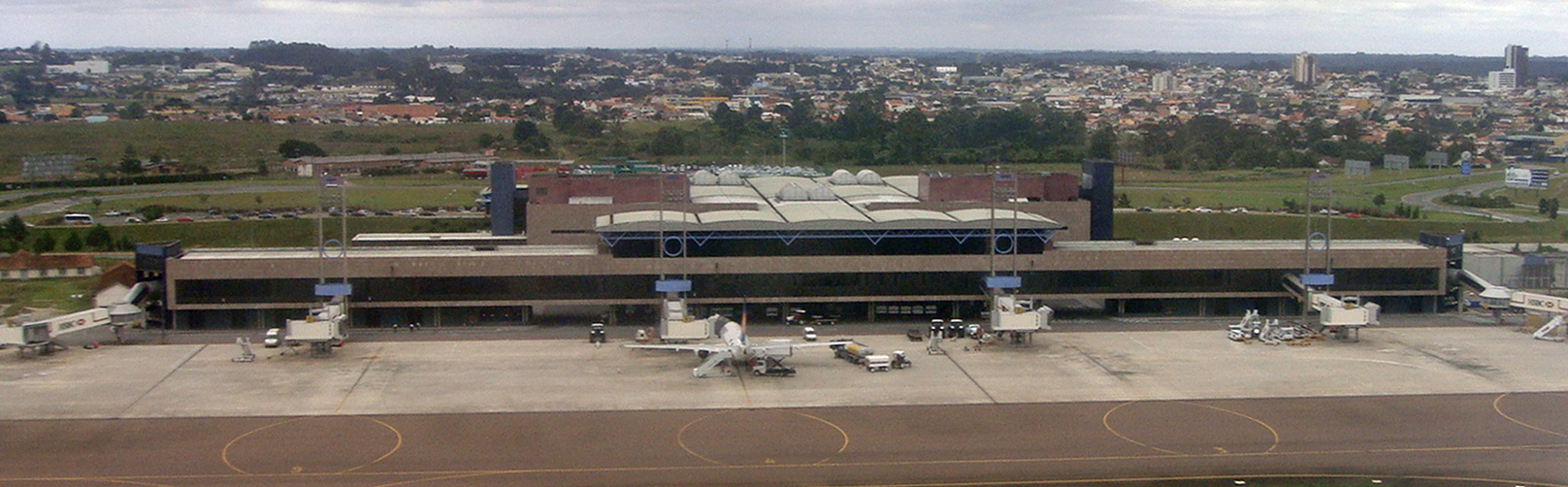 Aerial view of the Alfonso Pena International Airport (CWB), Curitiba, Brazil